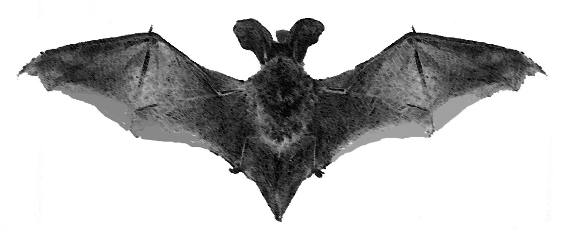 Big-Eared Brown Bat (Histiotus macrotus)